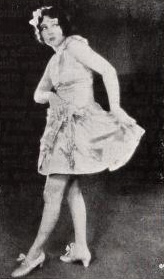 Jacqueline Logan as a cabaret dancer in the 1918 film, "Broadway Daddies"